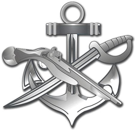 US Navy Special Warfare Boat Operator (SB). Crossed cutlass and cocked flintlock pistol superimposed onto an anchor.